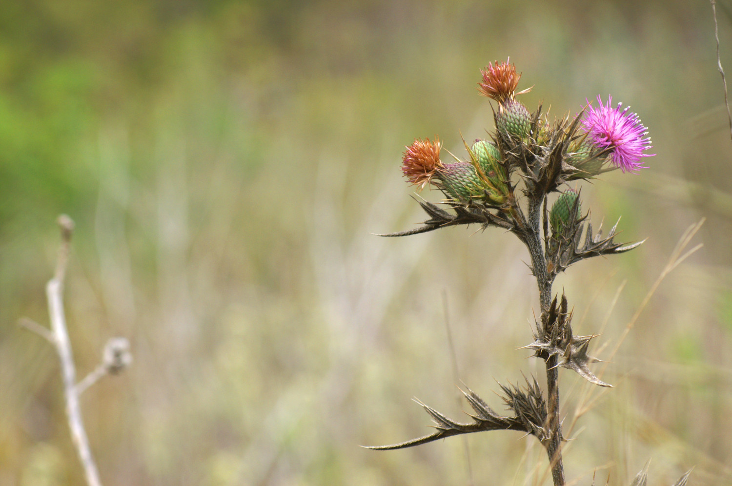 Cirsium phyllocephalum